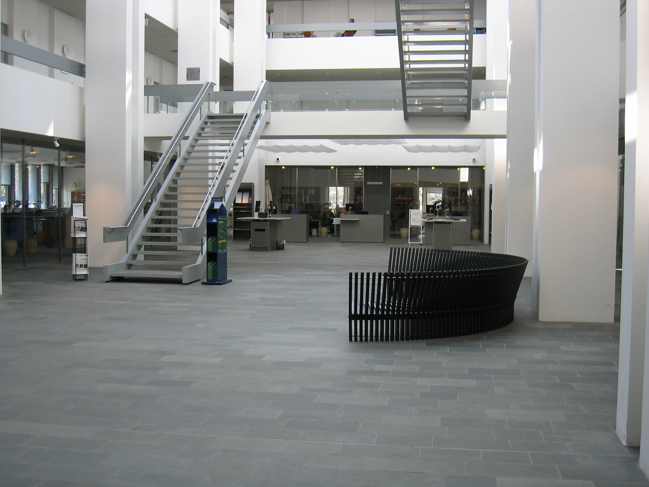 Technical University of Denmark, Kongens Lyngby, Denmark